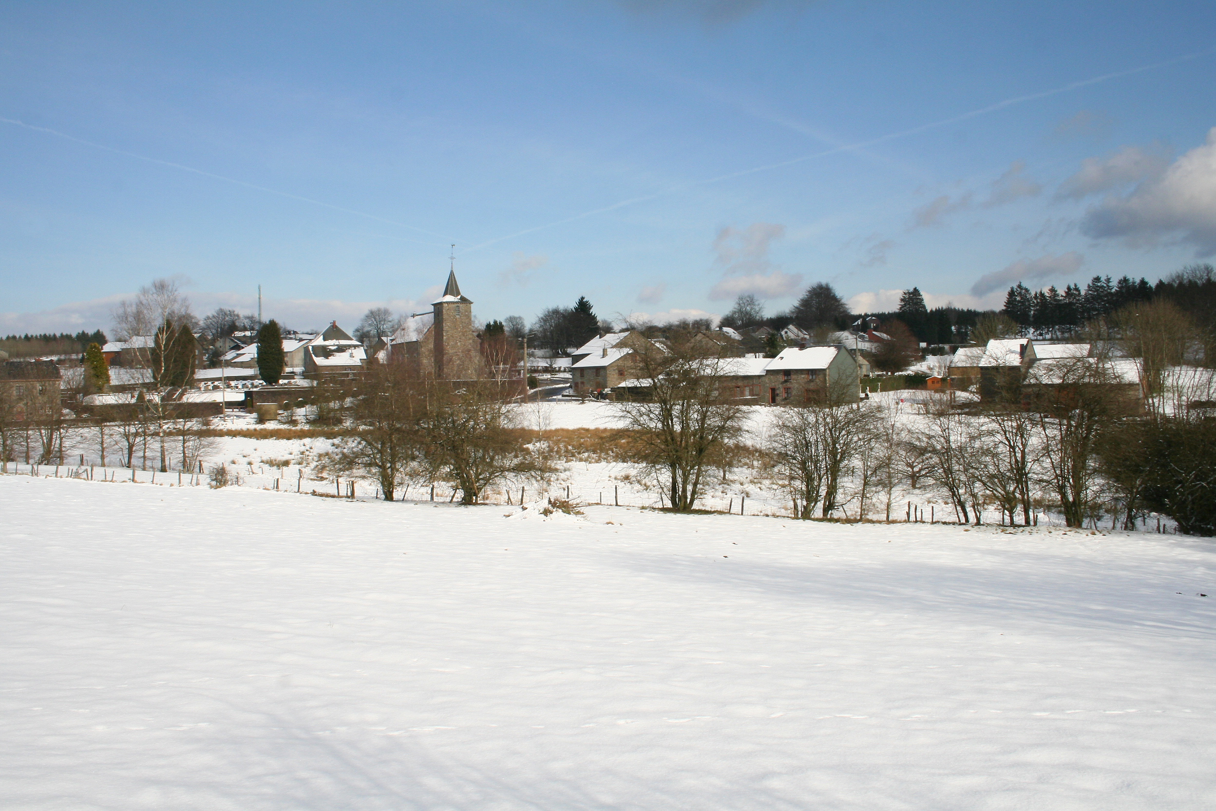 Samrée (Belgium), the village in the winter.